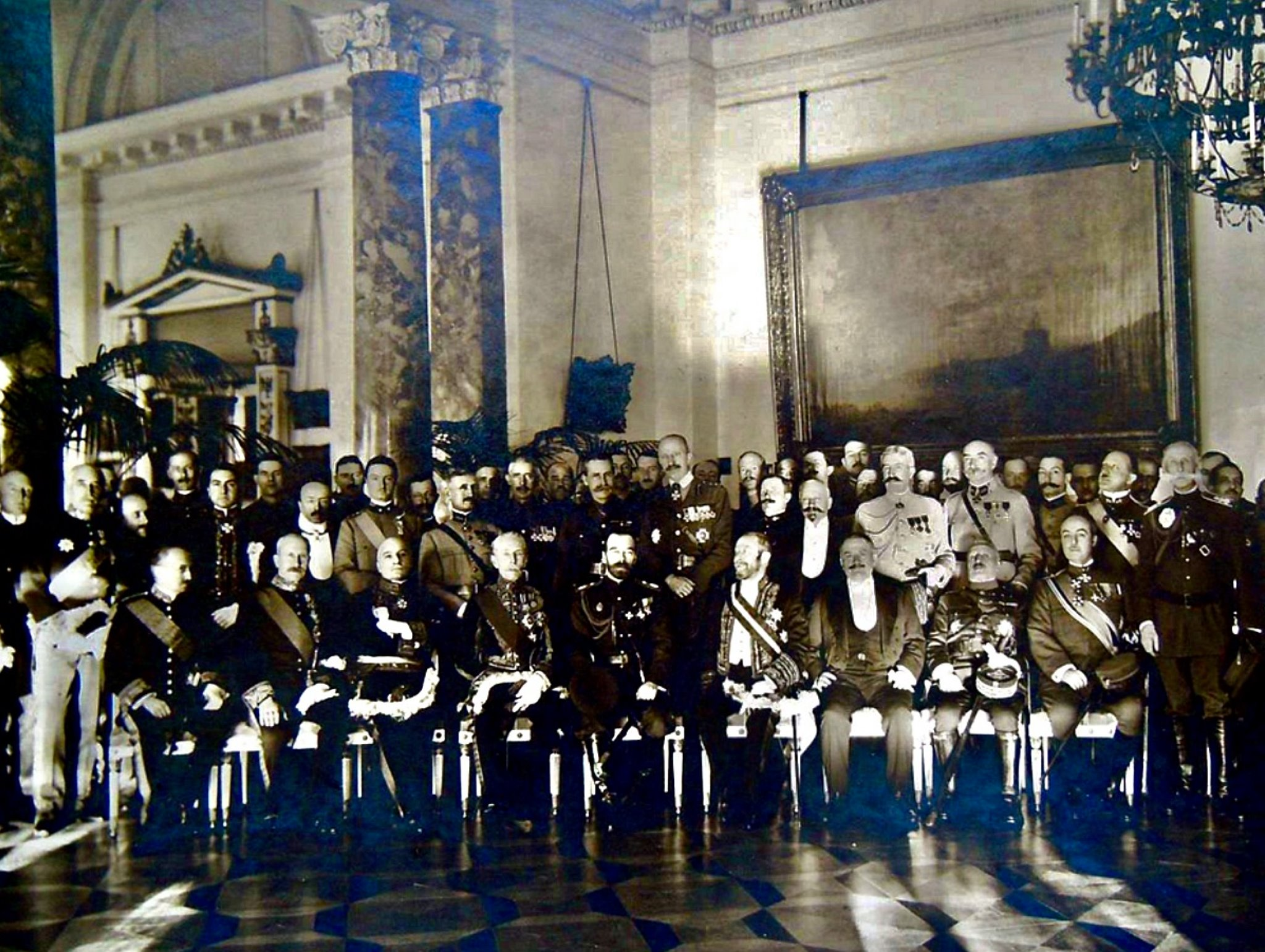 Lord Milner's mission to Russia in early 1917.